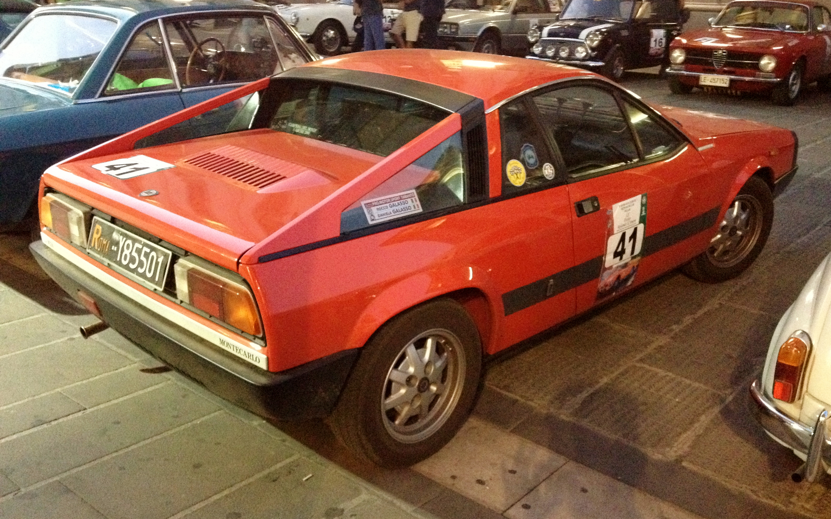 Lancia Beta Montecarlo coupè front